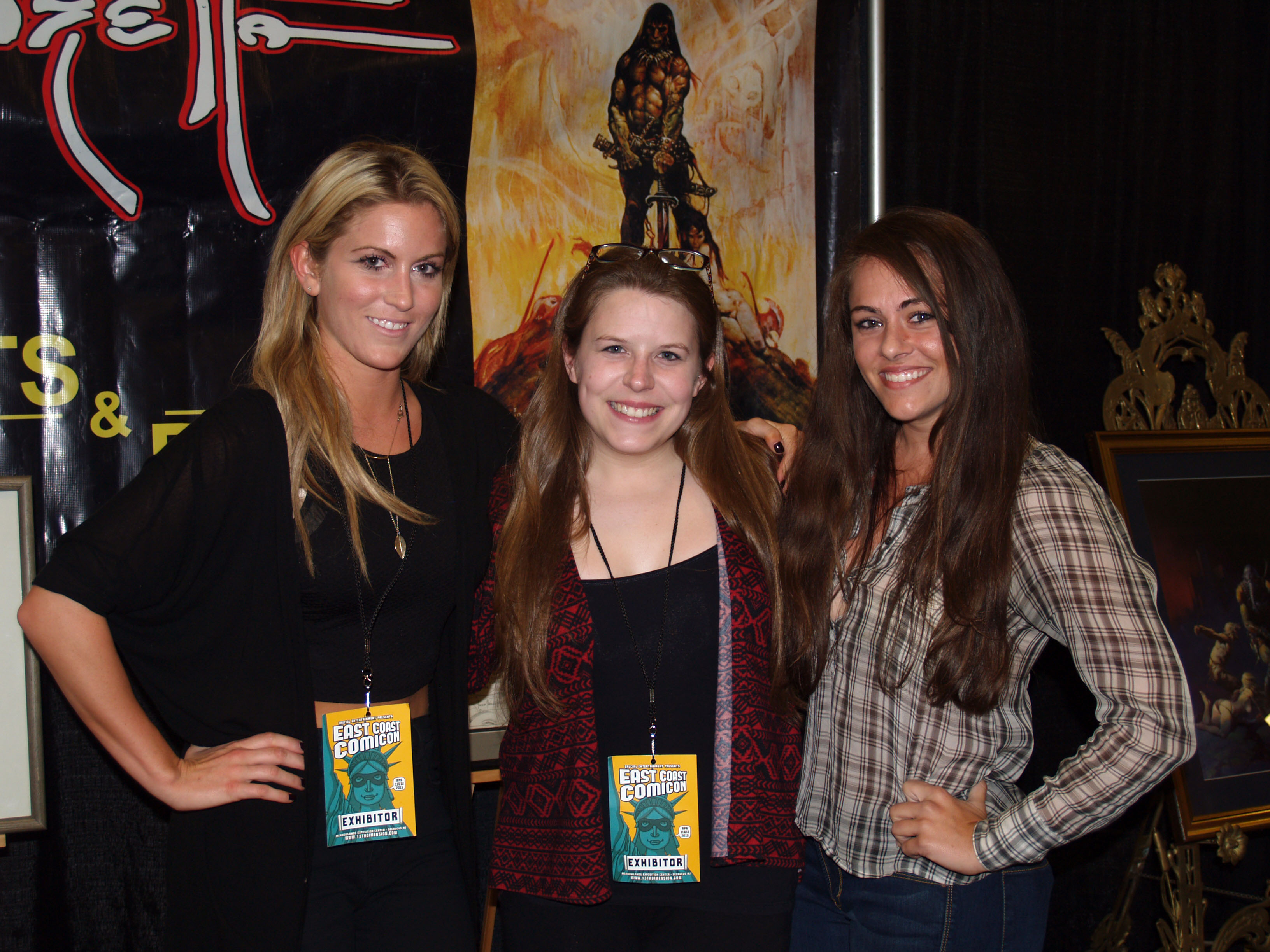 From left to right: Brittney Frazetta, Daniele Frazetta and Sara Frazetta Taylor, all of whom are granddaughters of illustrator Frank Frazetta, at the Frazetta booth in Artists Alley at the Meadowlands Exposition Center in Secaucus, New Jersey on April 11, 2015, Day 1 of the 2015 East Coast Comicon. Brittney and Sara are sisters, while Daniele is their cousin. This was the first time that Daniele appeared in public with Brittney and Sara. This photo was created by Luigi Novi. It is not in the public domain, and use of this file outside of the licensing terms is a copyright violation.